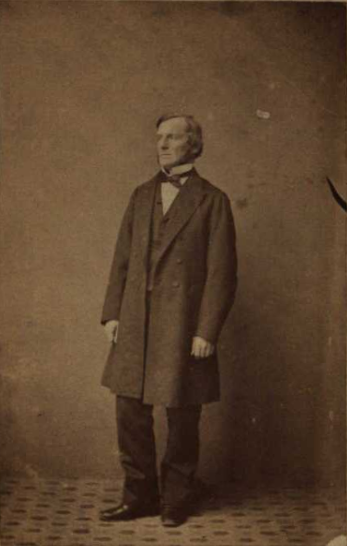 Photo of George Boole standing, by Samuel Prout Newcombe (c1824-1912)